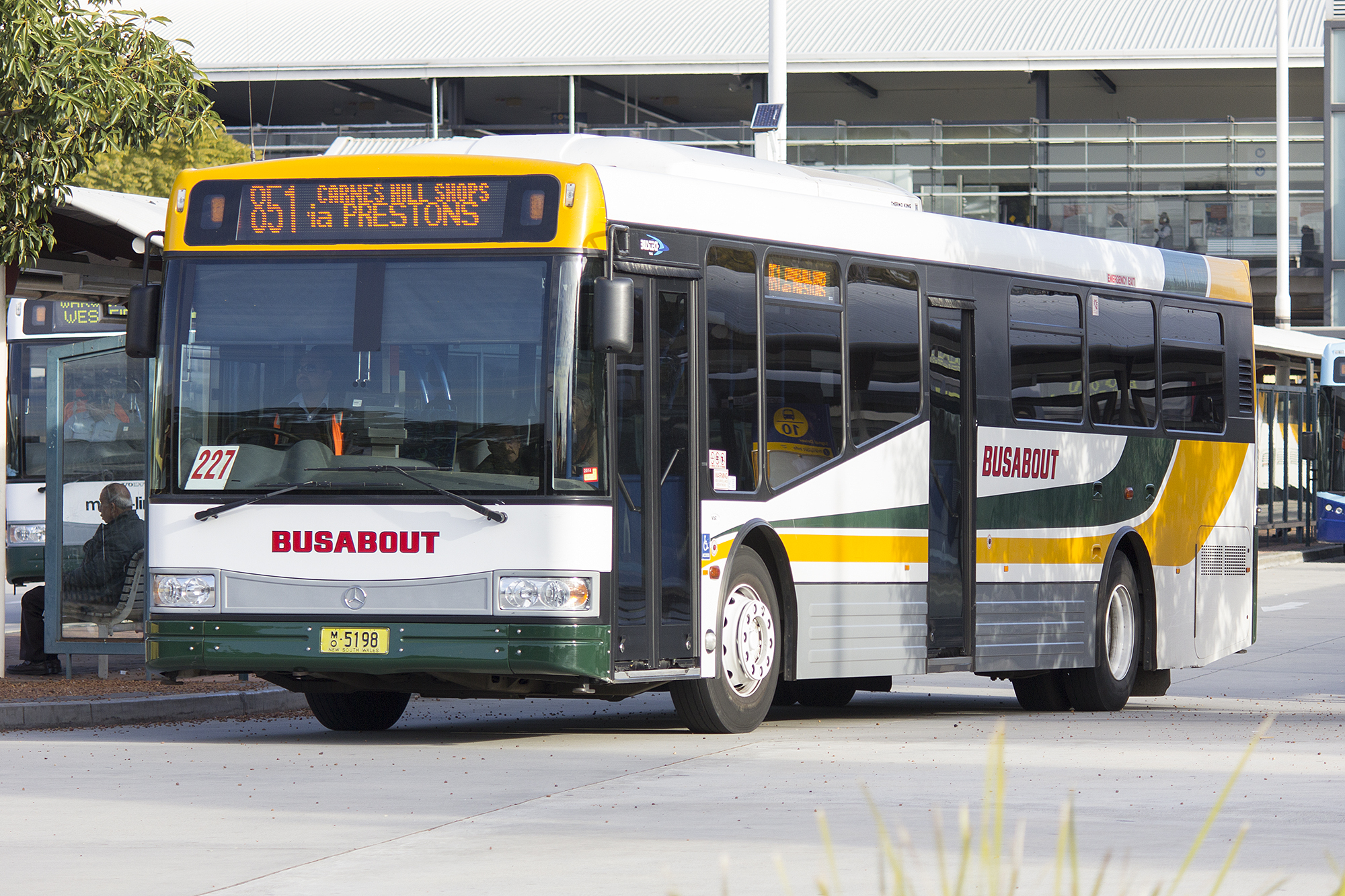 Busabout (mo 5198) Bustech 'VST' bodied Mercedes-Benz O500LE departing Liverpool Interchange.